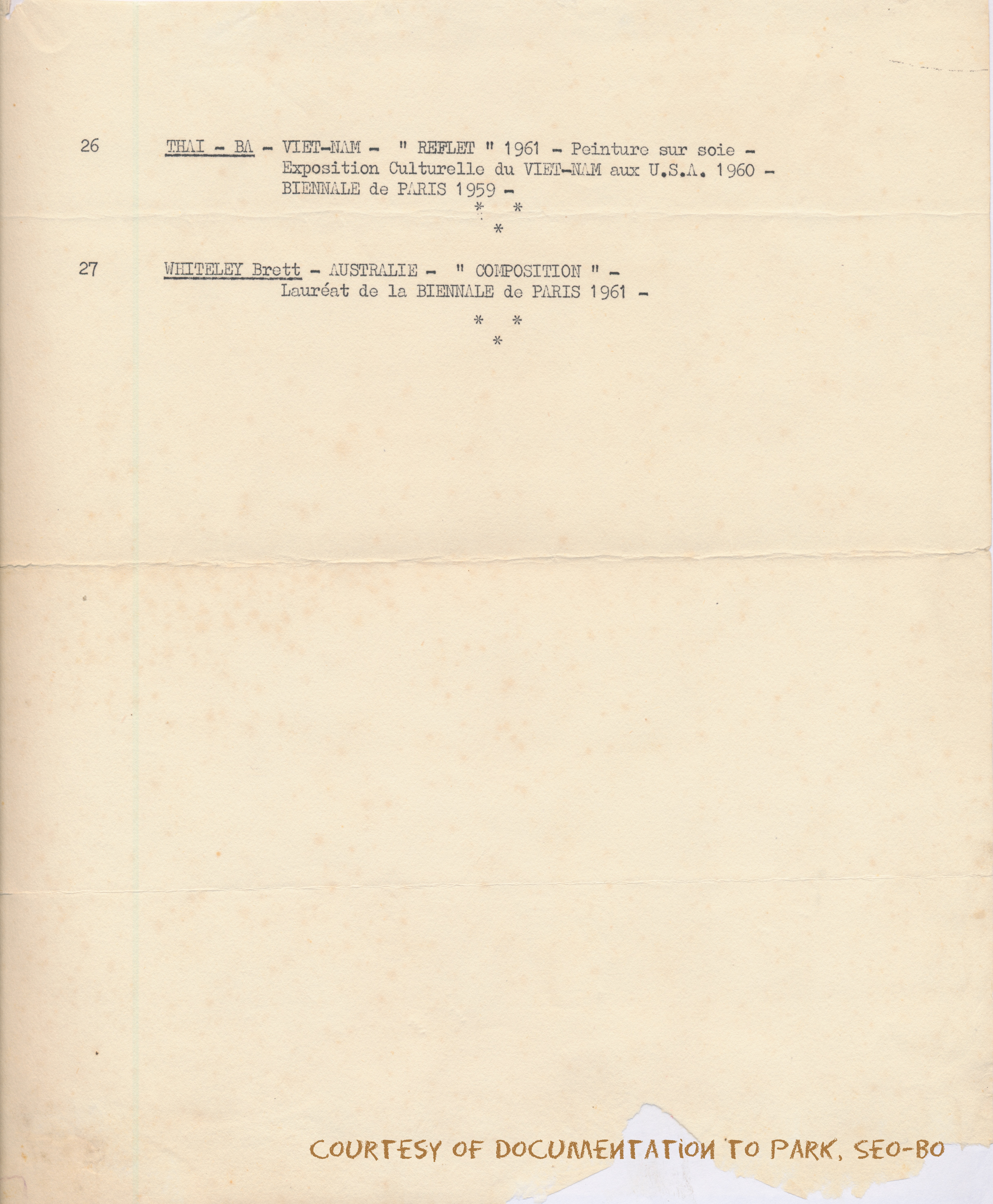 This is the first page of the list of the participants artists who submitted their work to the group exhibition of "Jeunes peintres du monde à Compiègne" held on October 21-22 in 1961. The exhibition was part of the residence program of "Jeunes peintres du monde à Paris" organized by the French Committee of International Association of Art and supported by UNESCO. The program was run from October 2 to October 28 in 1961, parallel with the 2nd Paris Biennial which started on September 28. This scanned list is provided by the daughter of Park Seo-Bo's with his consent. Park Seo-Bo is one and the Korean representative artist of the 27 artists from 24 countries.